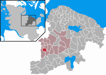 This map shows the area of the Gemeinde (municipality) Warnau in the Kreis (district) Plön, Schleswig-Holstein, Germany.